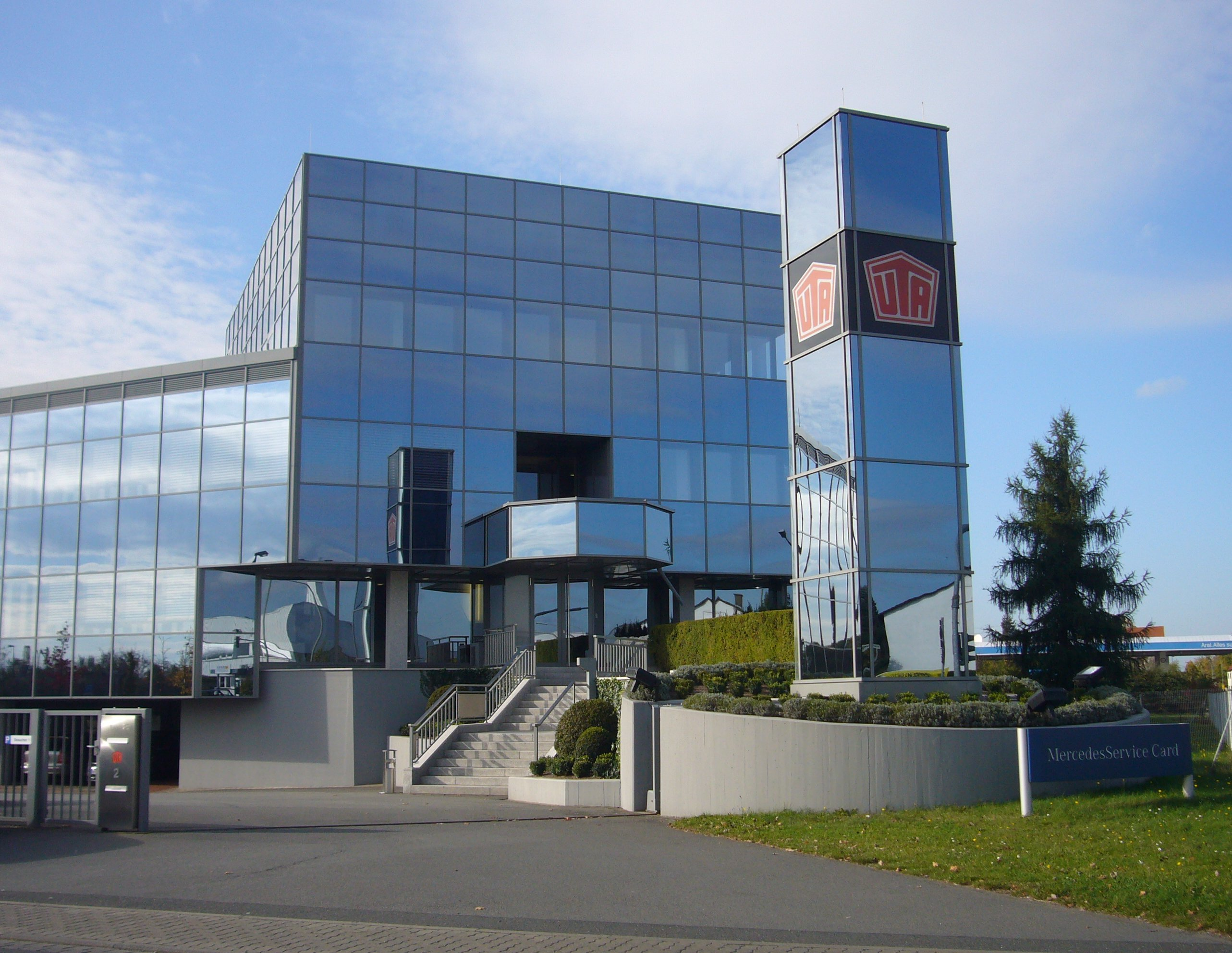 UTA European Headquarter